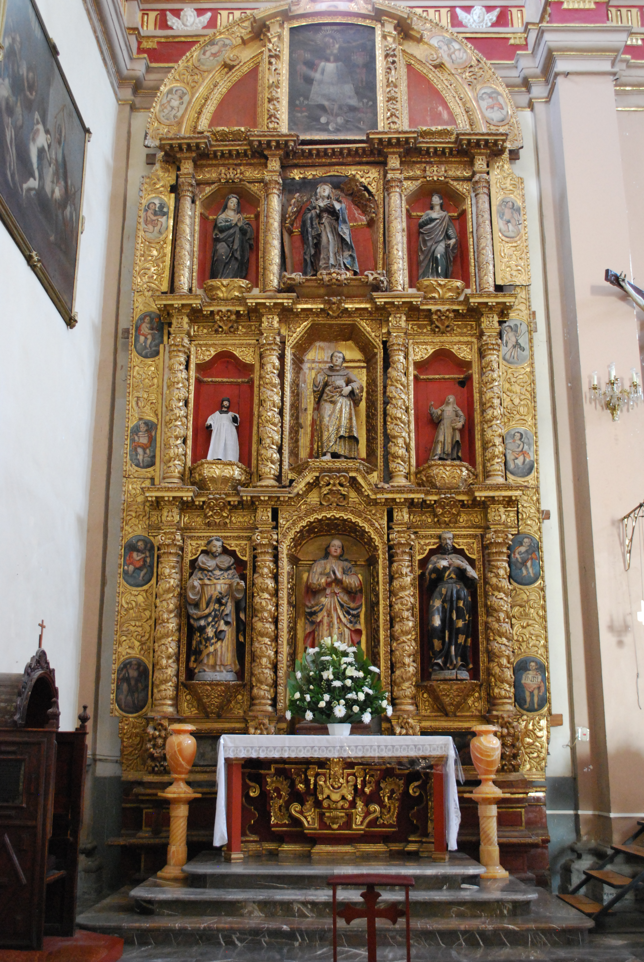 One of the side altars at the Cathedral of Texcoco, Mexico State, Mexico